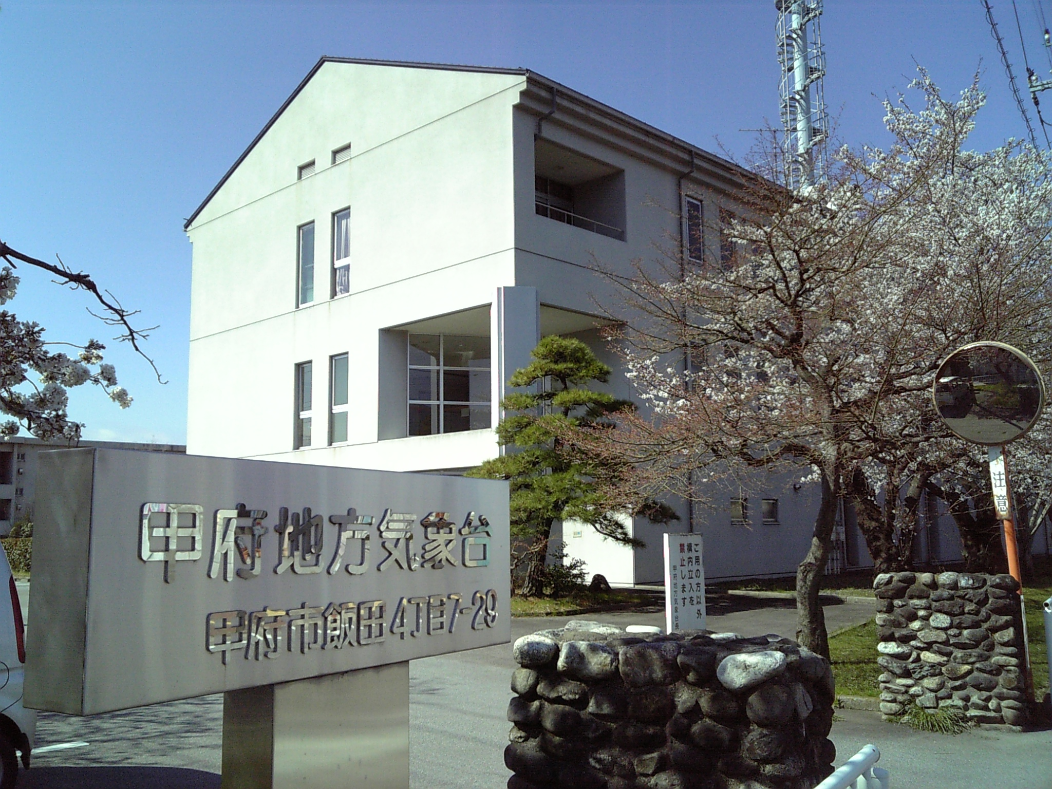 Kofu Local Meteorological Observatory